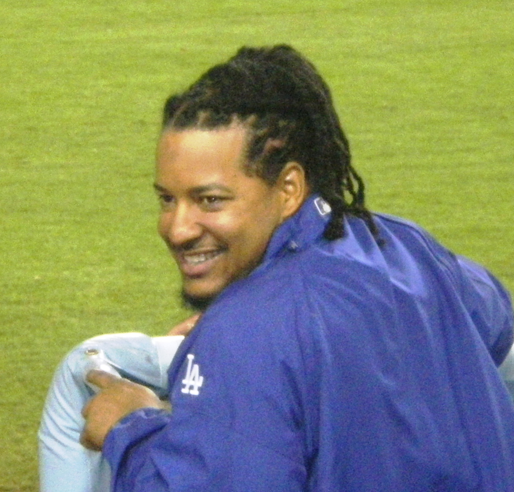 Manny Ramirez in the Dodger Dugout